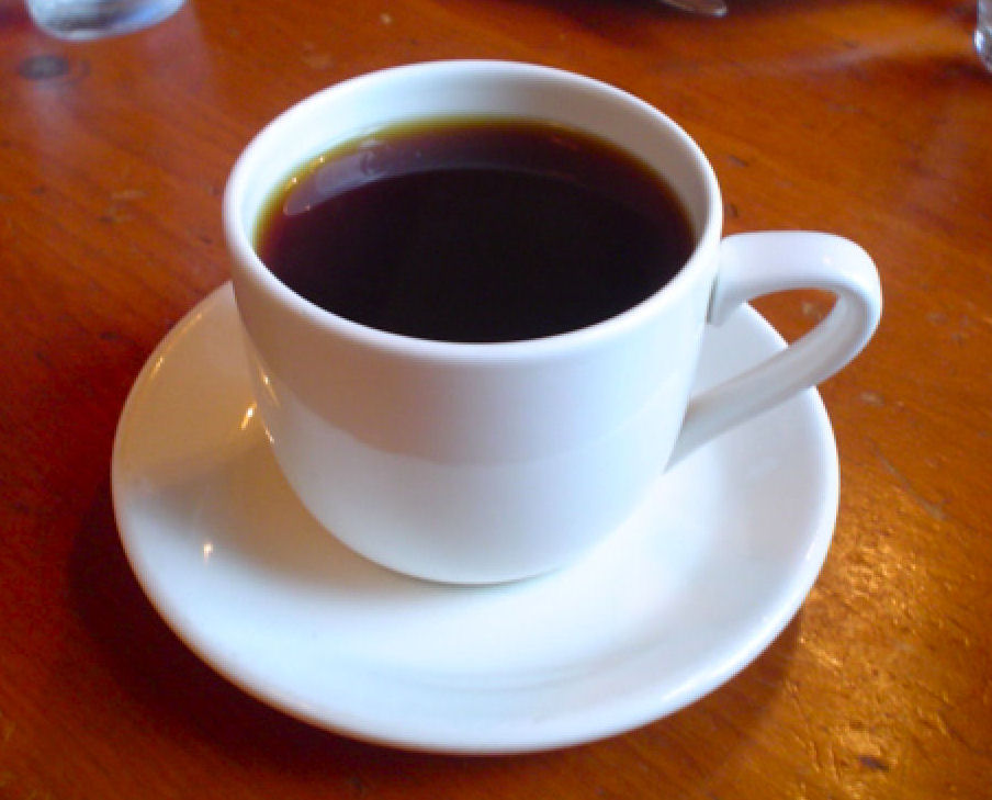 Digital photo of a cup of coffee created by User:Tijuana Brass.